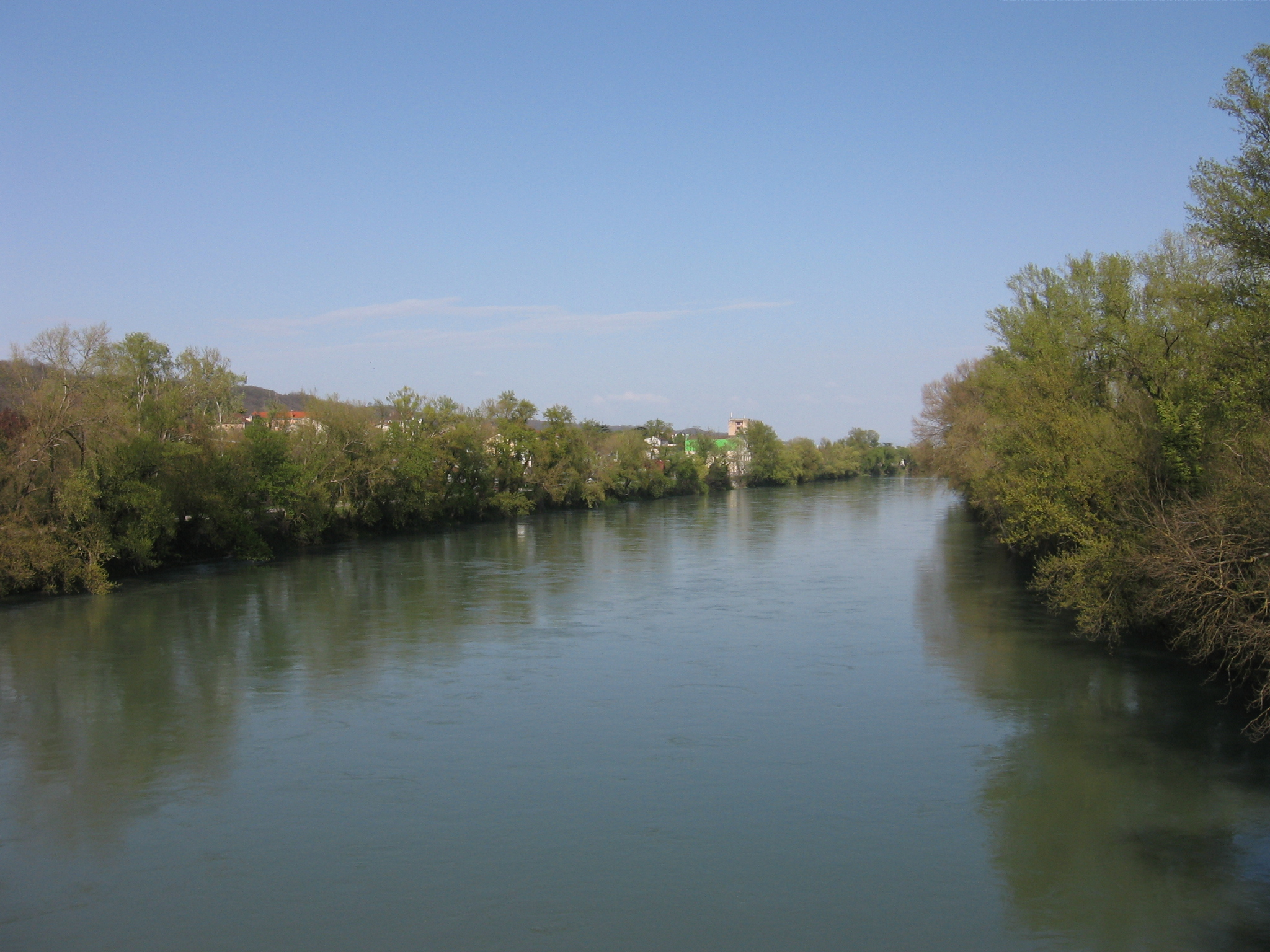 Canal de Miribel, France, Ain